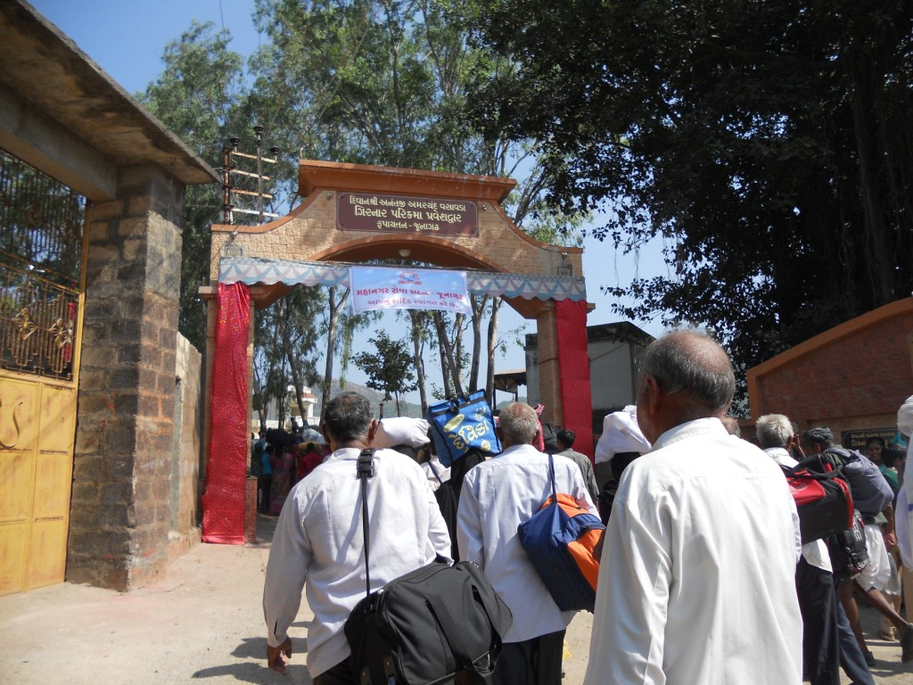 Girnar Lili Parikrama Gateway at Rupayatan, Junagadh.